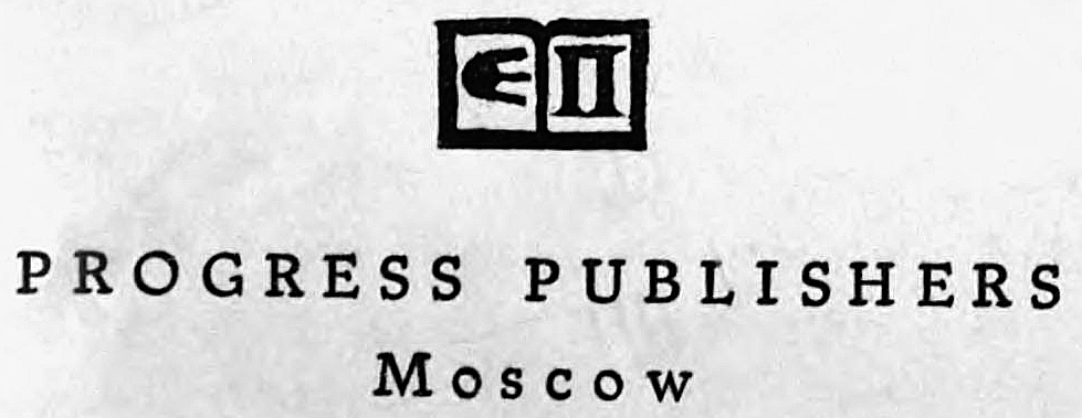 Progress Publishers Logo